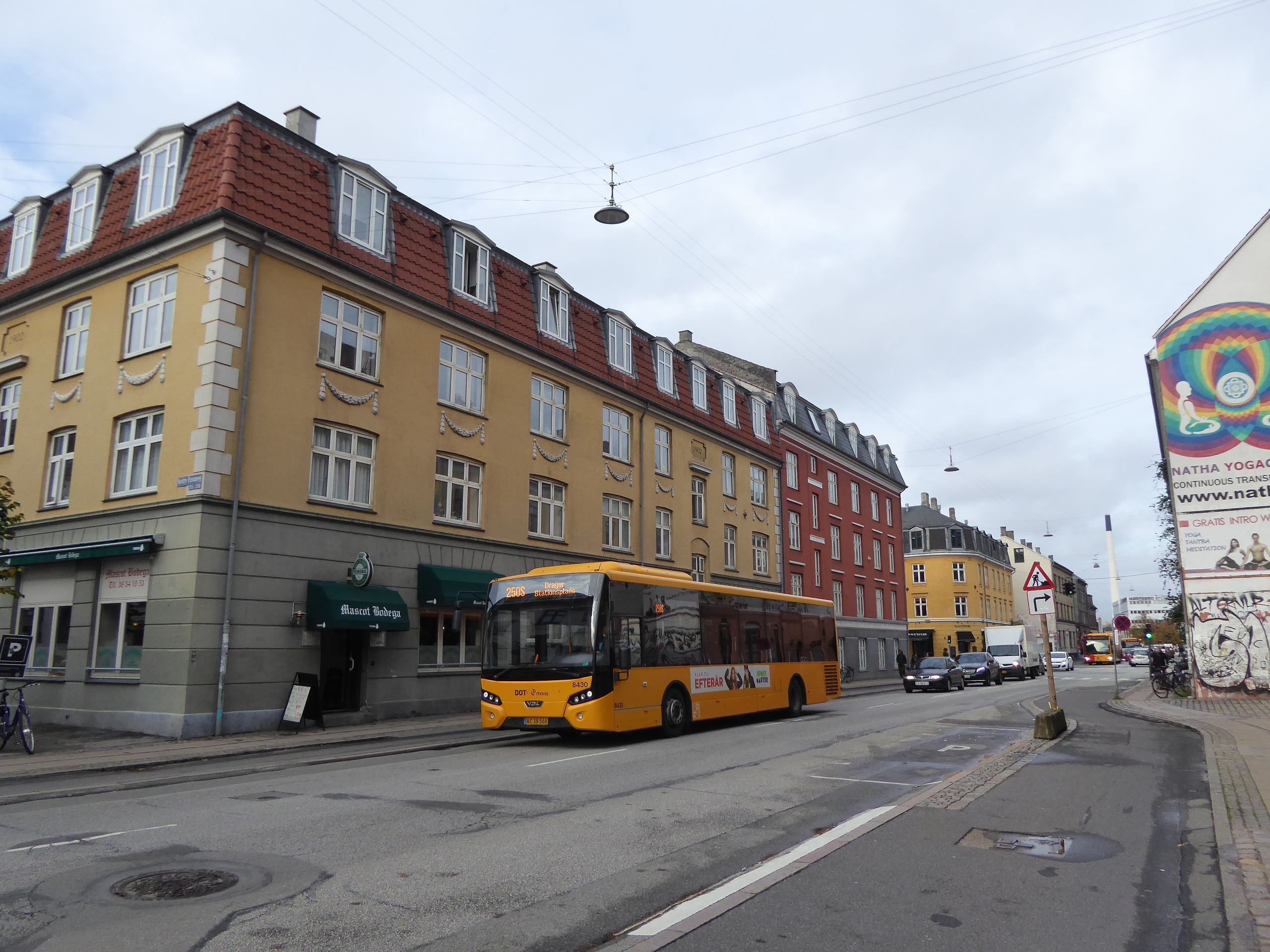 Movia bus line 250S on Nordre Fasanvej in Nørrebro in Copenhagen. The bus don't have the blue S-bus corners because it normally belongs to line 14.